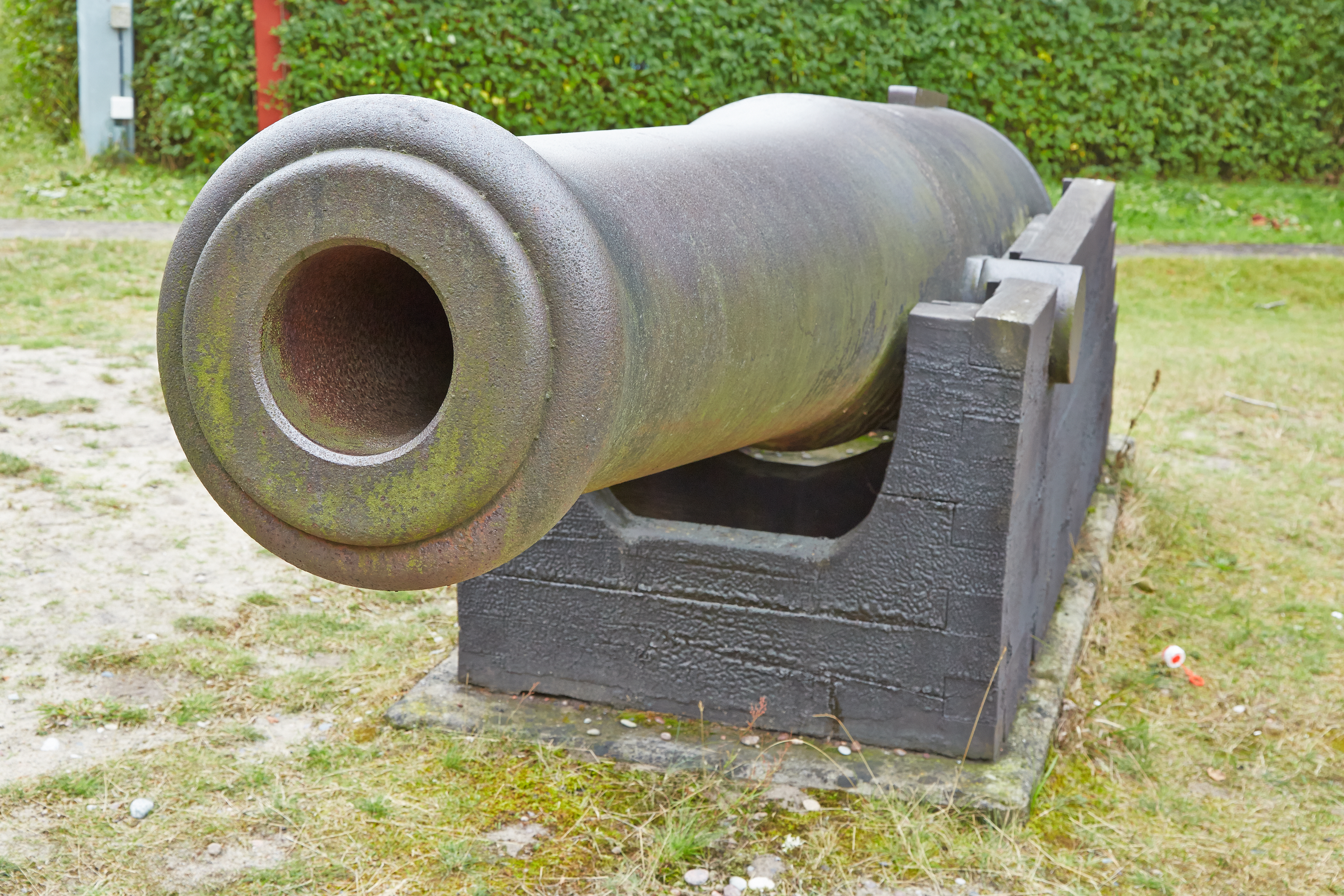 Fyrbyn, Gotska Sandön